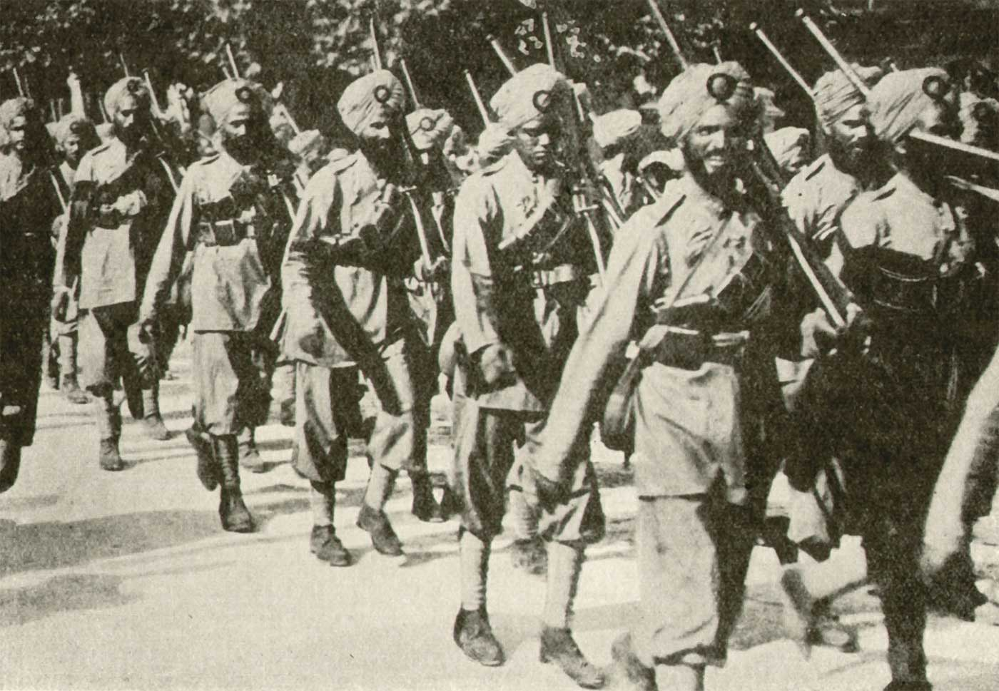 Troops of the British Indian Army in France during World War I.